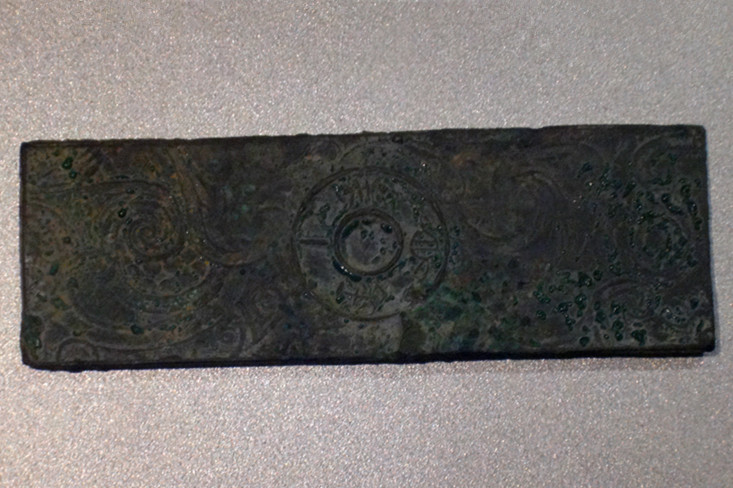 A bronze money plate with insciptions of "见金一朱"(Jian Jin Yi Zhu), "见"(Jian) means worth, "金"(Jin) means gold, "一"(Yi) means one, "朱"(Zhu) is a currency unit. 24 Zhu(Jo) is equel to a Liang. "见金一朱"(Jian Jin Yi Zhu) means the bronze money plate was worth 0.65g gold